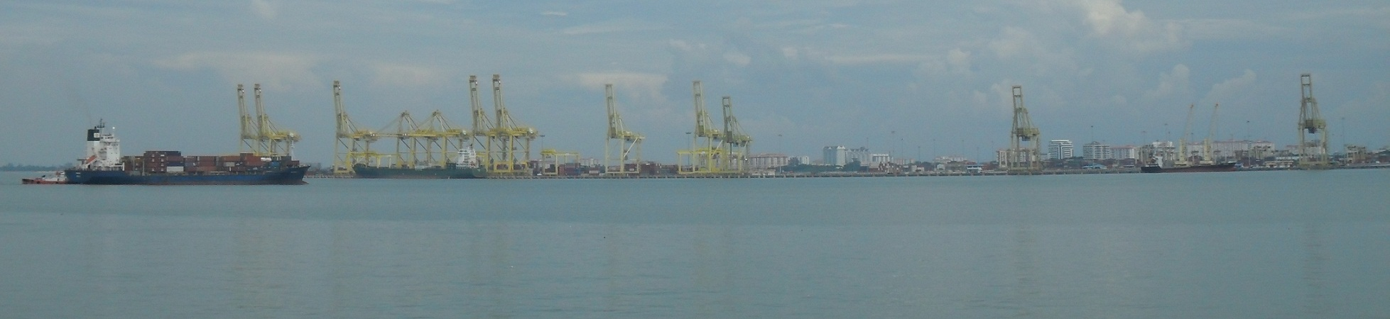 Port of Butterworth, Malaysia